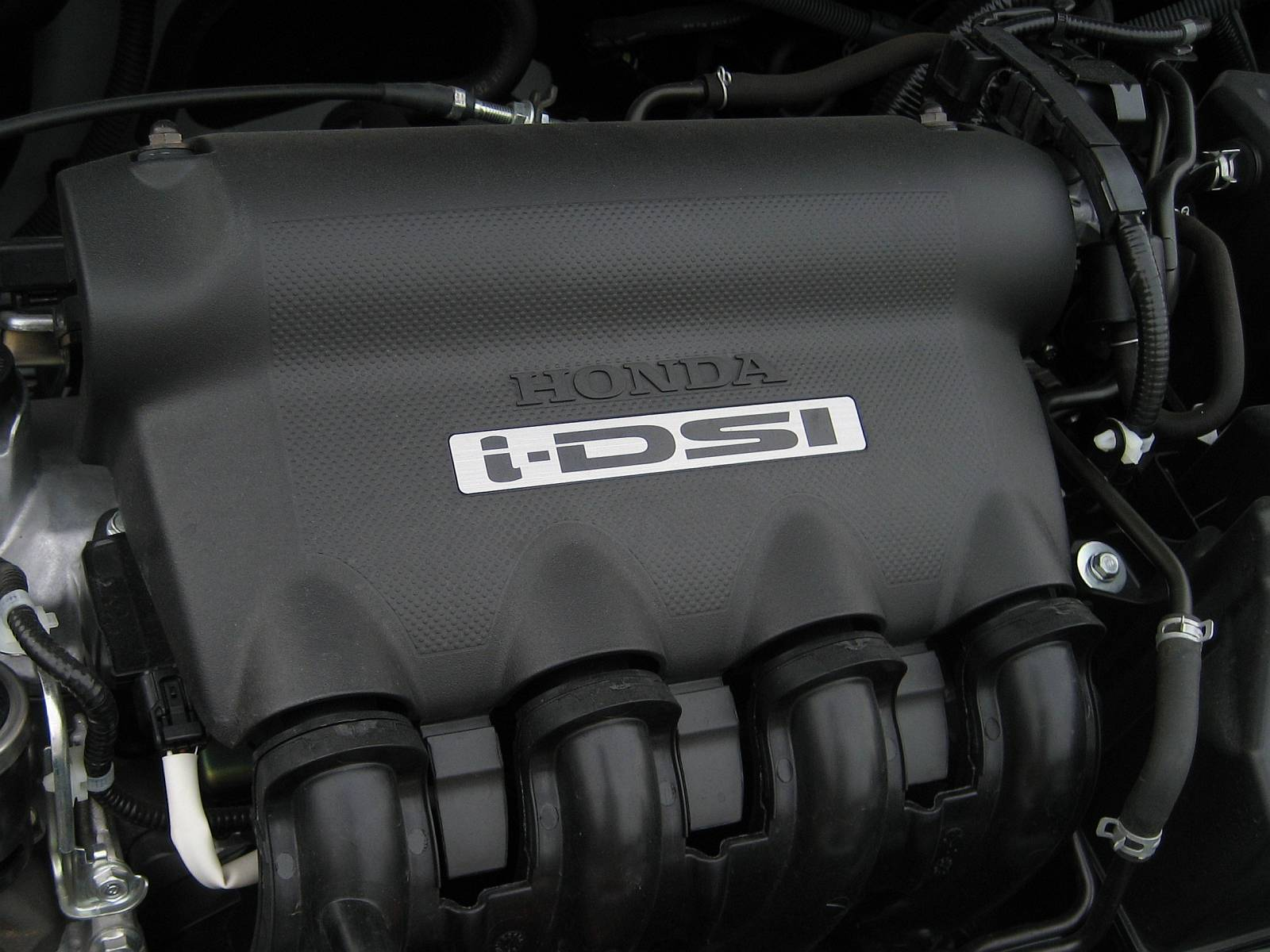 L13A i-DSI engine on Honda Fit 1.3A (DBA-GD1).